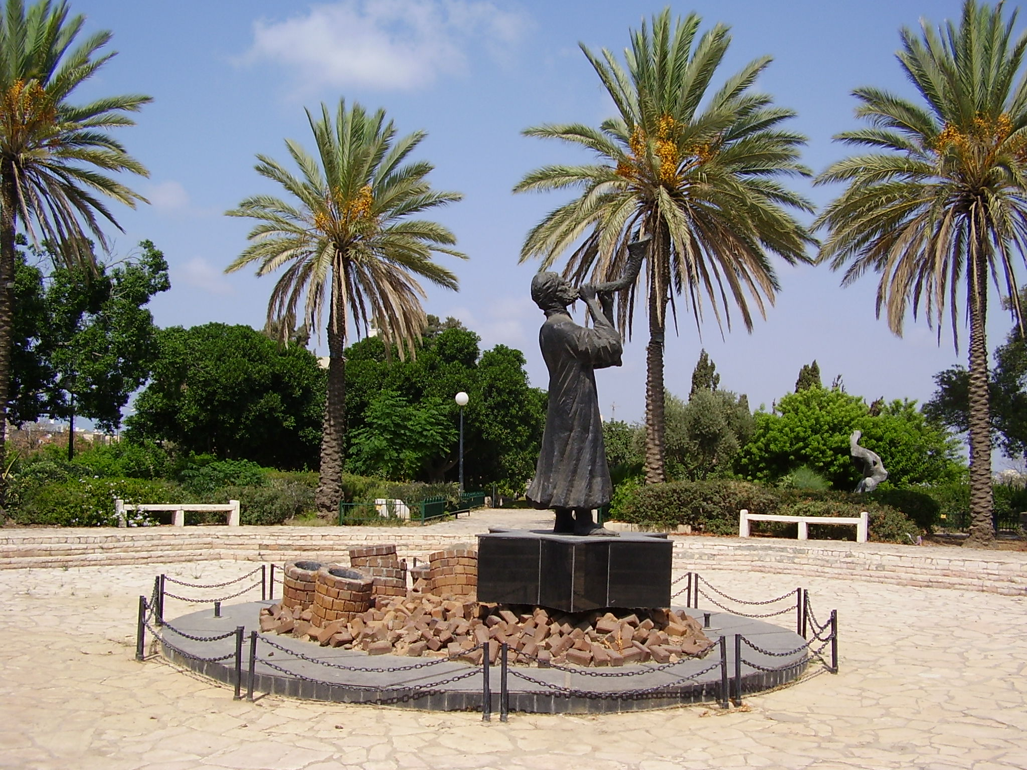 holocaust memorial, ramat gan, israel